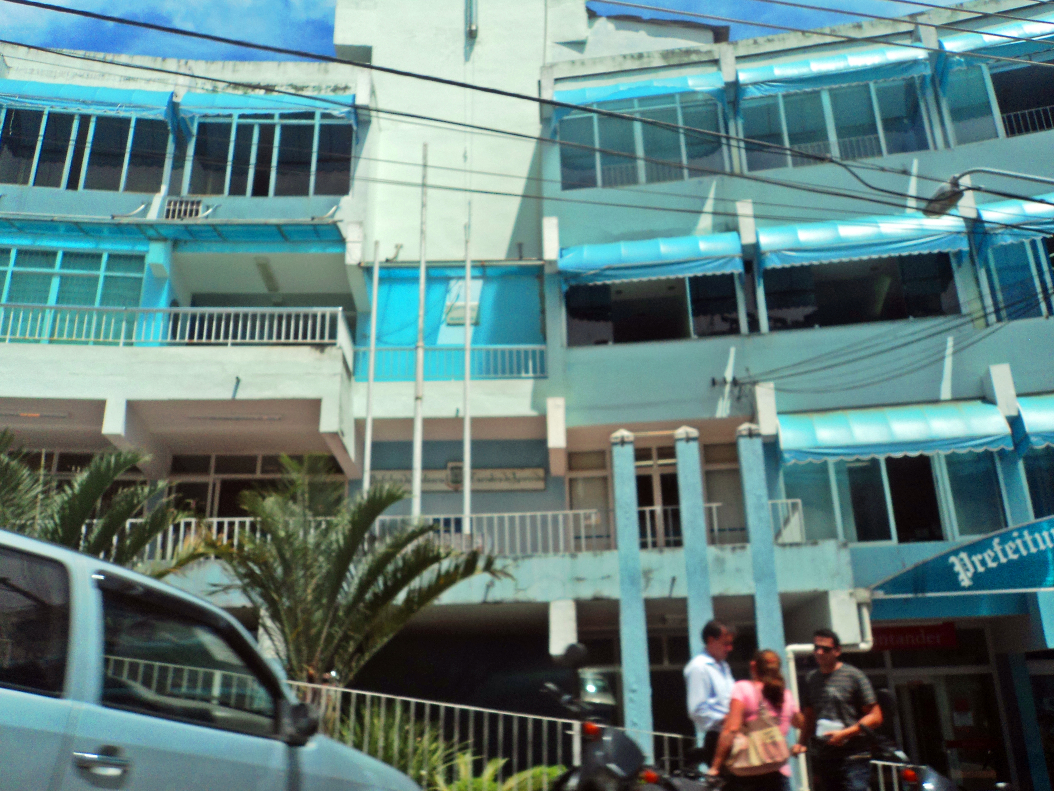 Front of the prefecture building of Aparecida, São Paulo, Brazil.